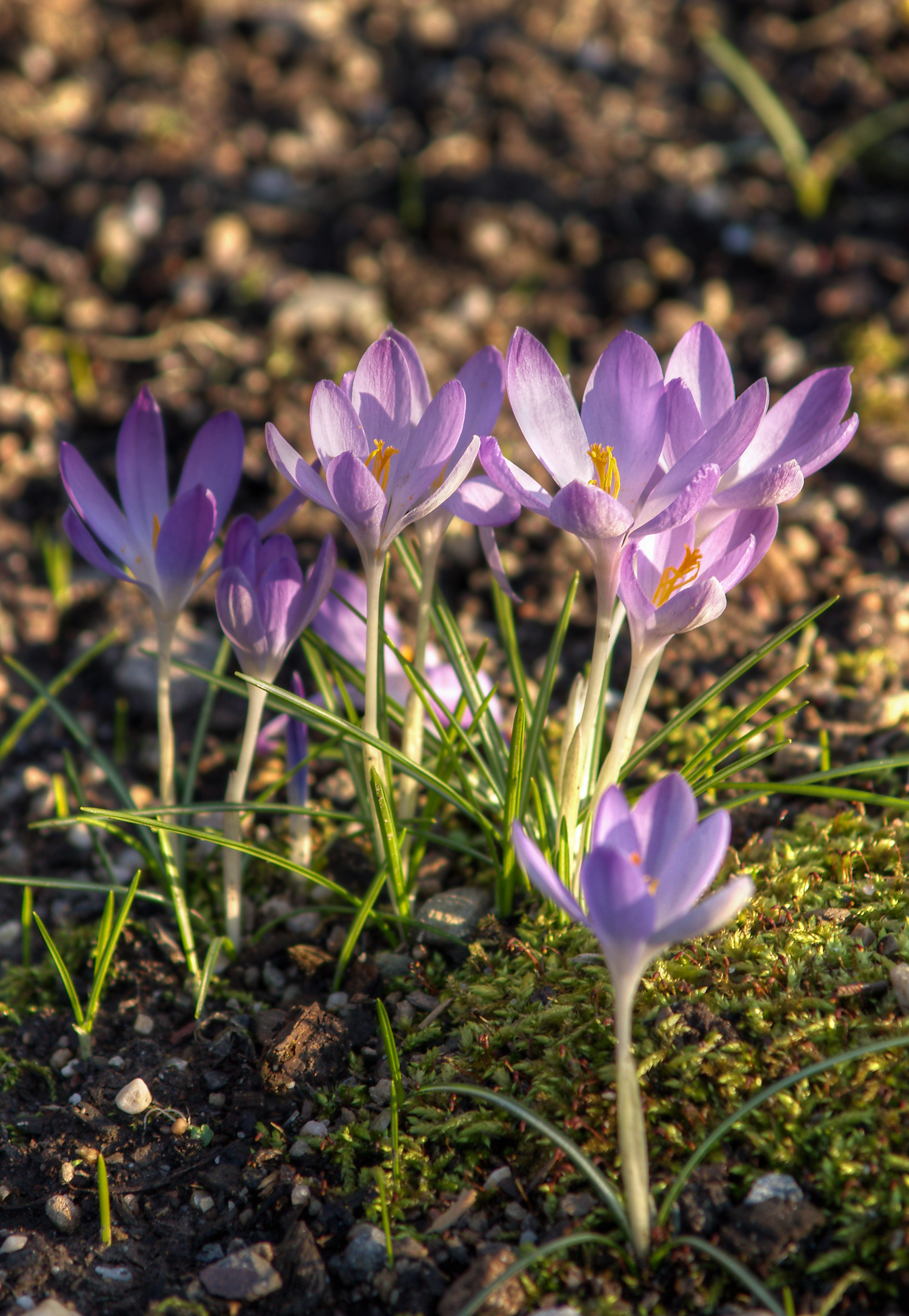 Woodland crocus (Crocus tommasinianus), Chemnitz, Germany